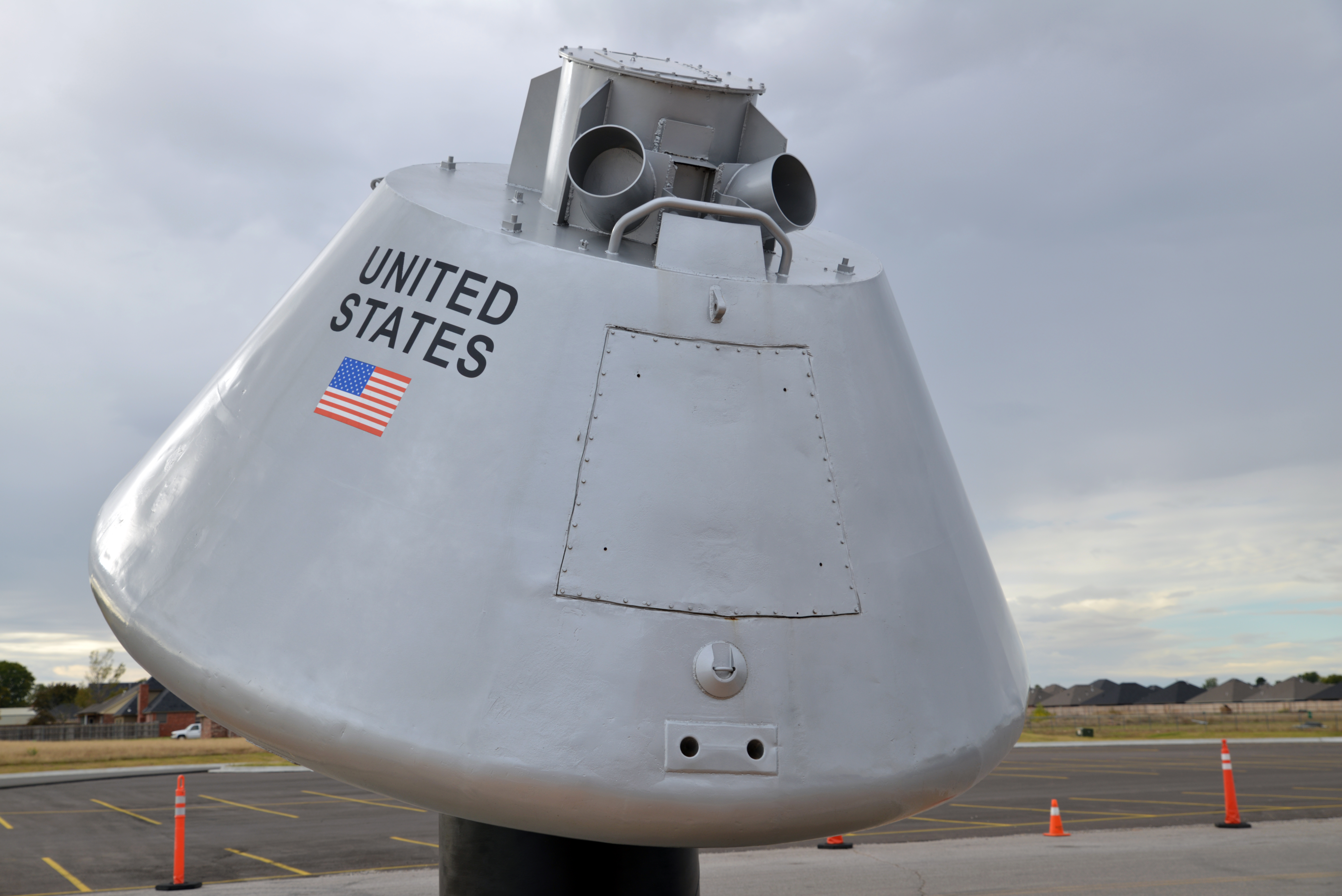 At the Stafford Air & Space Museum, Weatherford, Oklahoma, U.S.